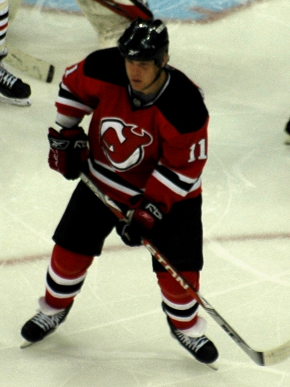 Dean McAmmond plays with Devils against Chicago